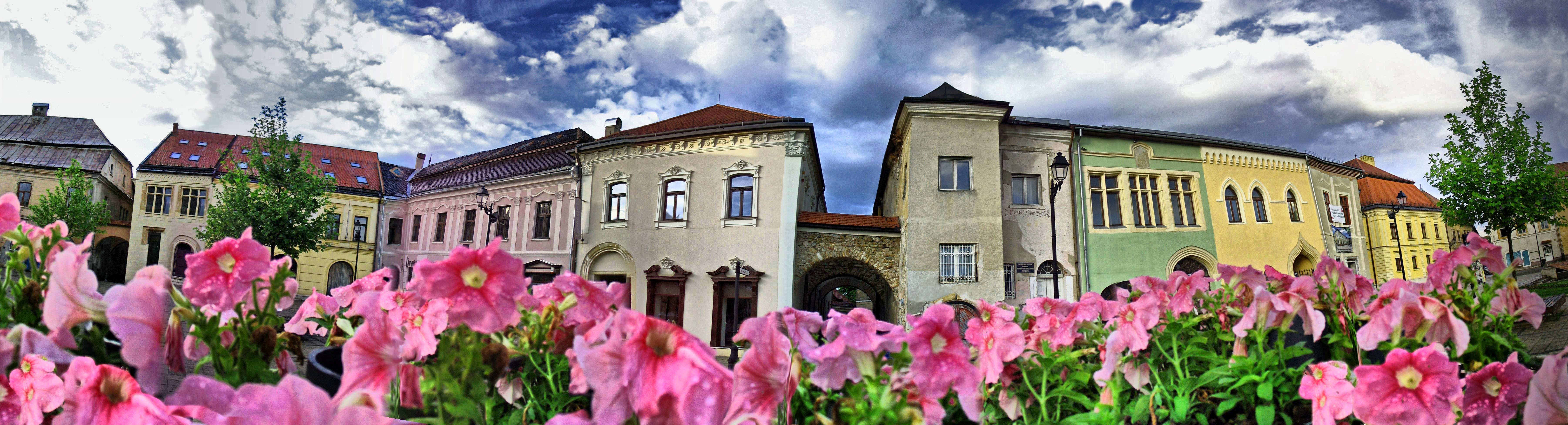 Baia Mare old city panorama